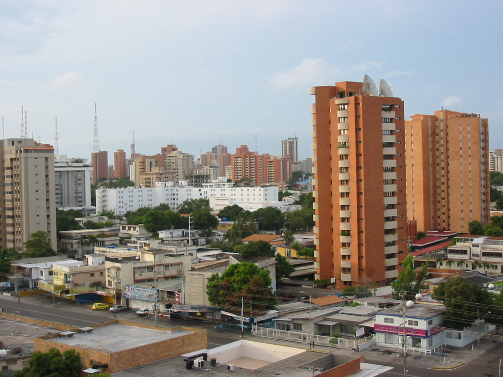 A view of Hotel Kristof in Maracaibo, taken from the Alijuna building